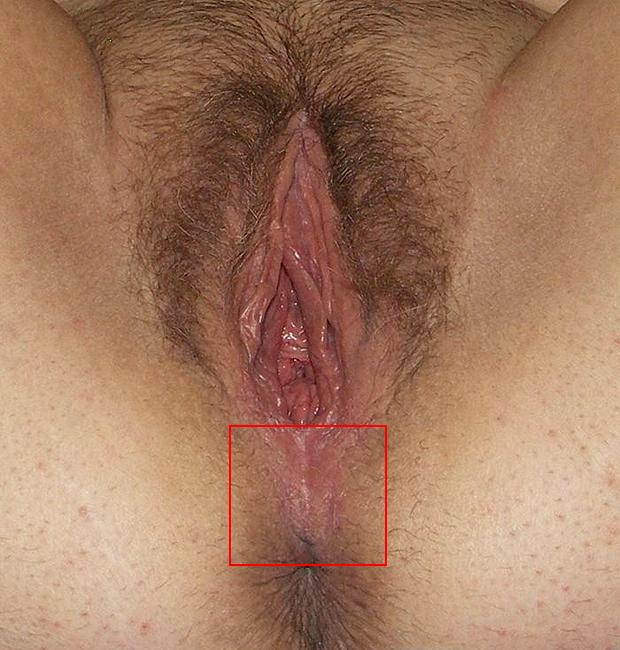 Perineum of a female